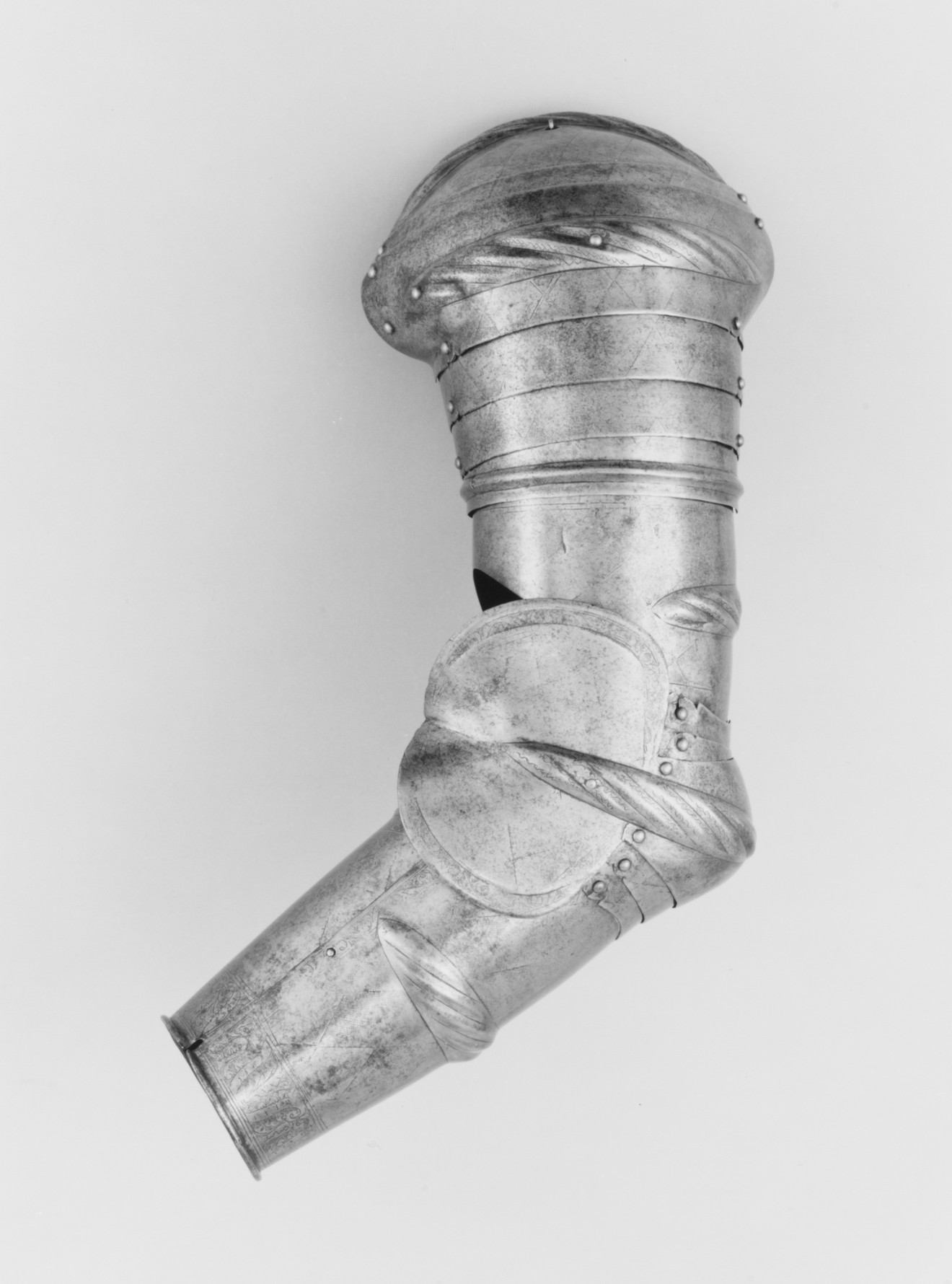 Italian, probably Milan; Defense for the left arm; Armor Parts